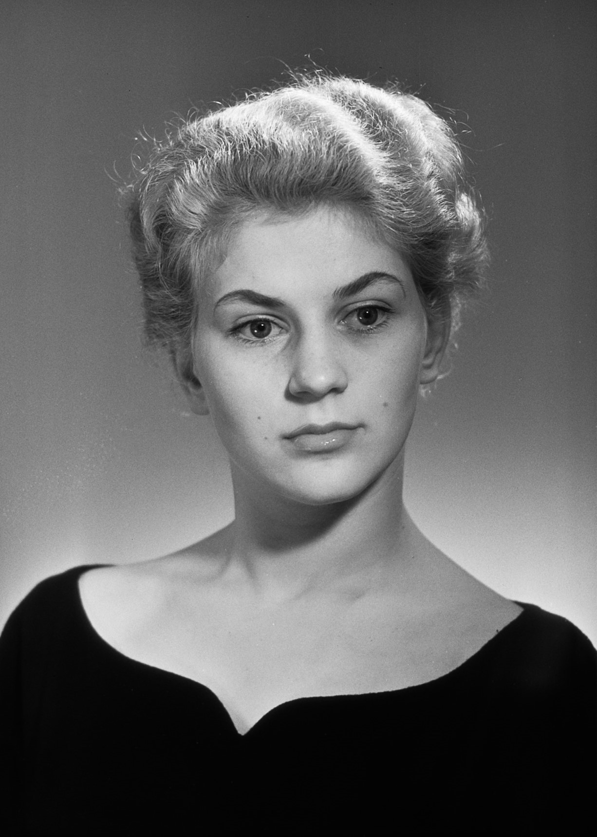 Eva Hellas in 1952.